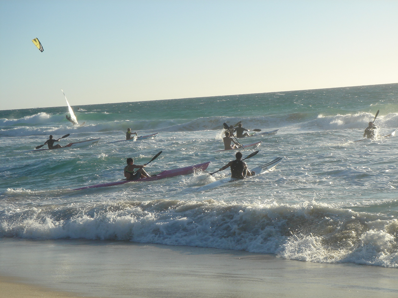 Kayaking on surf skis at a beach in Australia